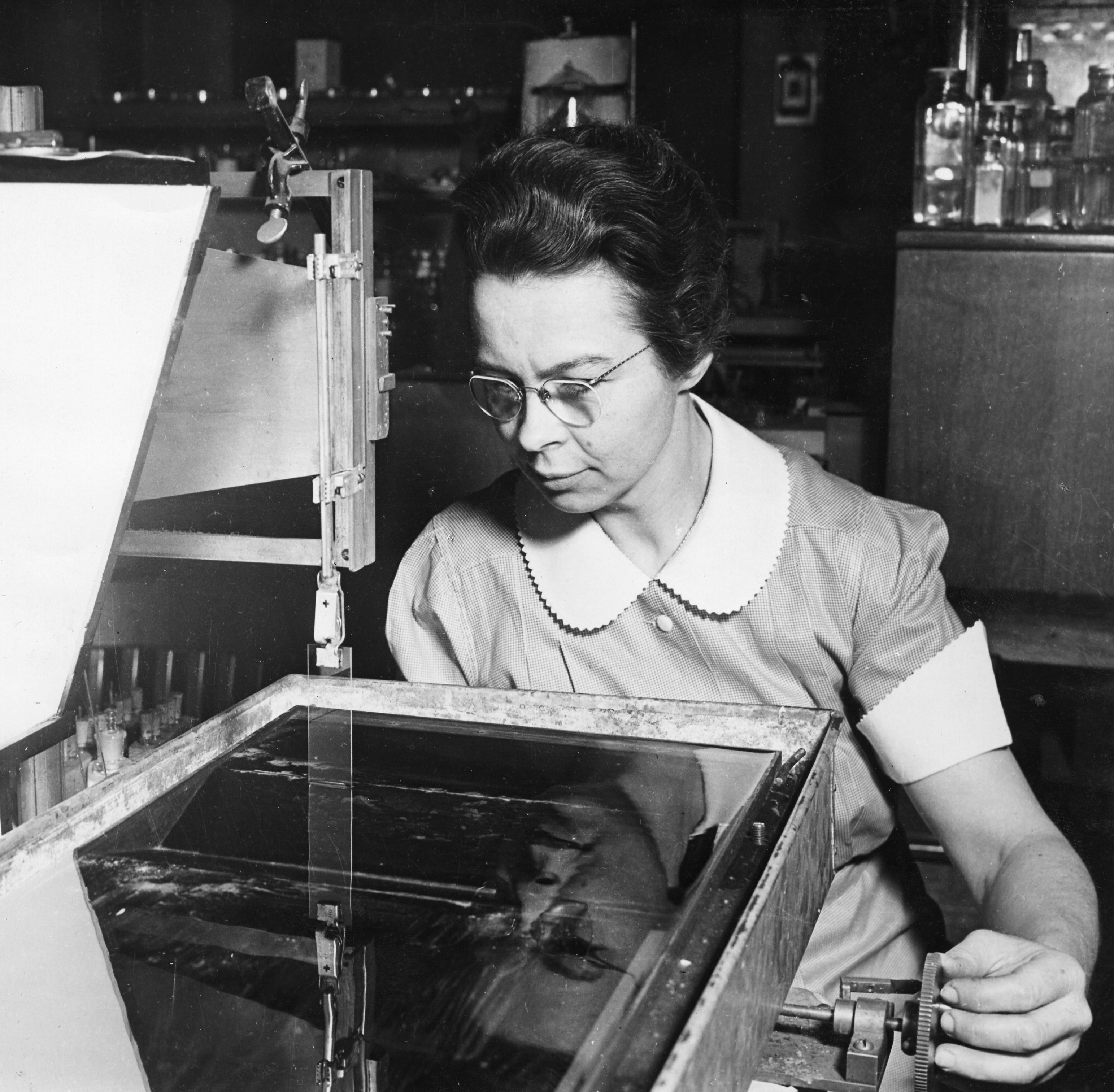 Description: In 1938, when this publicity photograph was taken, physicist Katharine Burr Blodgett (1898-1979) worked at General Electric Research Laboratories, where she did important research in surface chemistry and thin films. She received the American Chemical Society's Garvan Medal in 1951. Creator/Photographer: Unidentified photographer Medium: Black and white photographic print Date: 1938 Persistent URL: [1] Repository: Smithsonian Institution Archives Collection: Science Service Records, 1902-1965 (Record Unit 7091) - Science Service, now the Society for Science & the Public, was a news organization founded in 1921 to promote the dissemination of scientific and technical information. Although initially intended as a news service, Science Service produced an extensive array of news features, radio programs, motion pictures, phonograph records, and demonstration kits and it also engaged in various educational, translation, and research activities. Accession number: SIA2007-0282